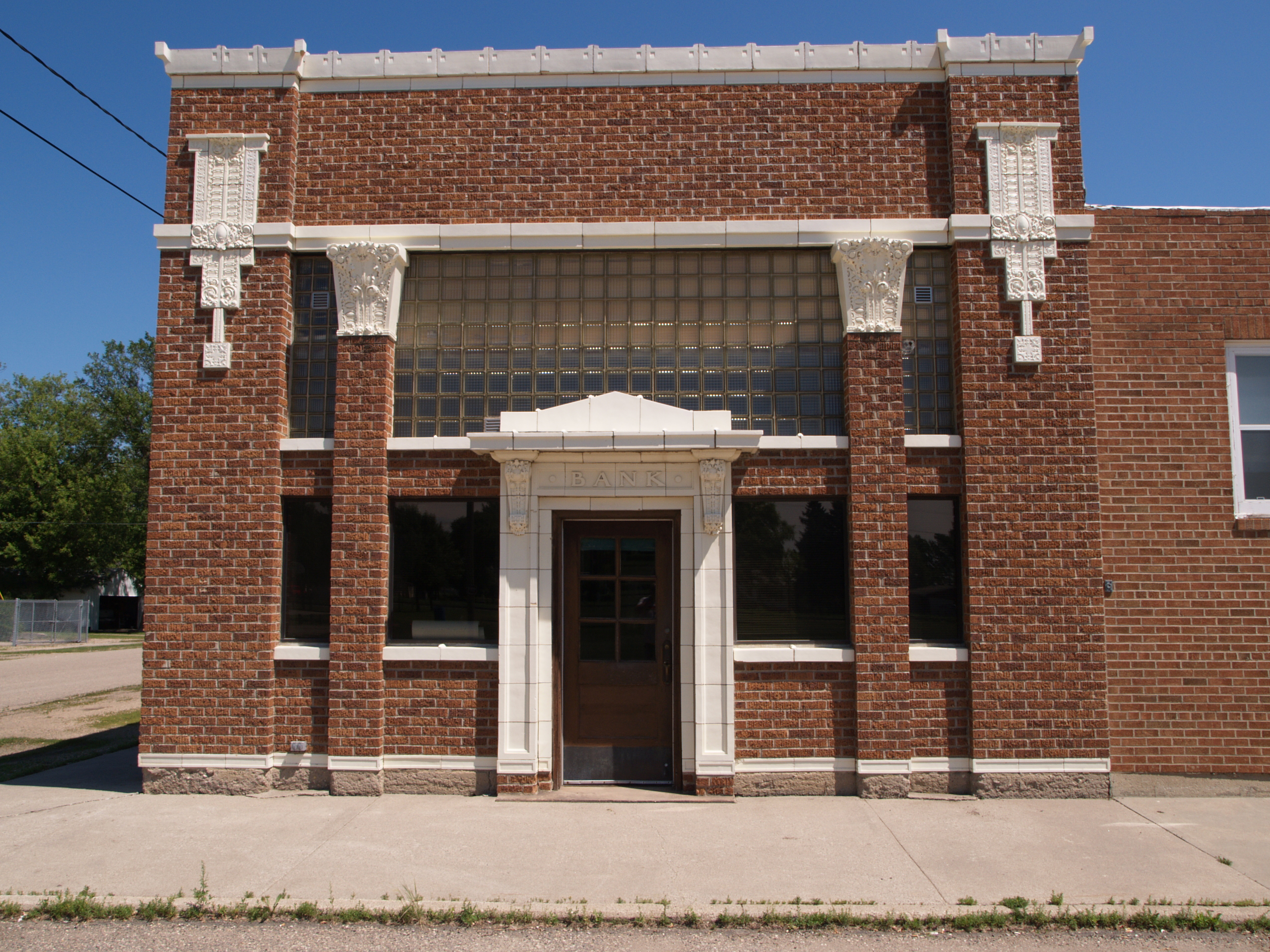 Forest River, North Dakota. From .